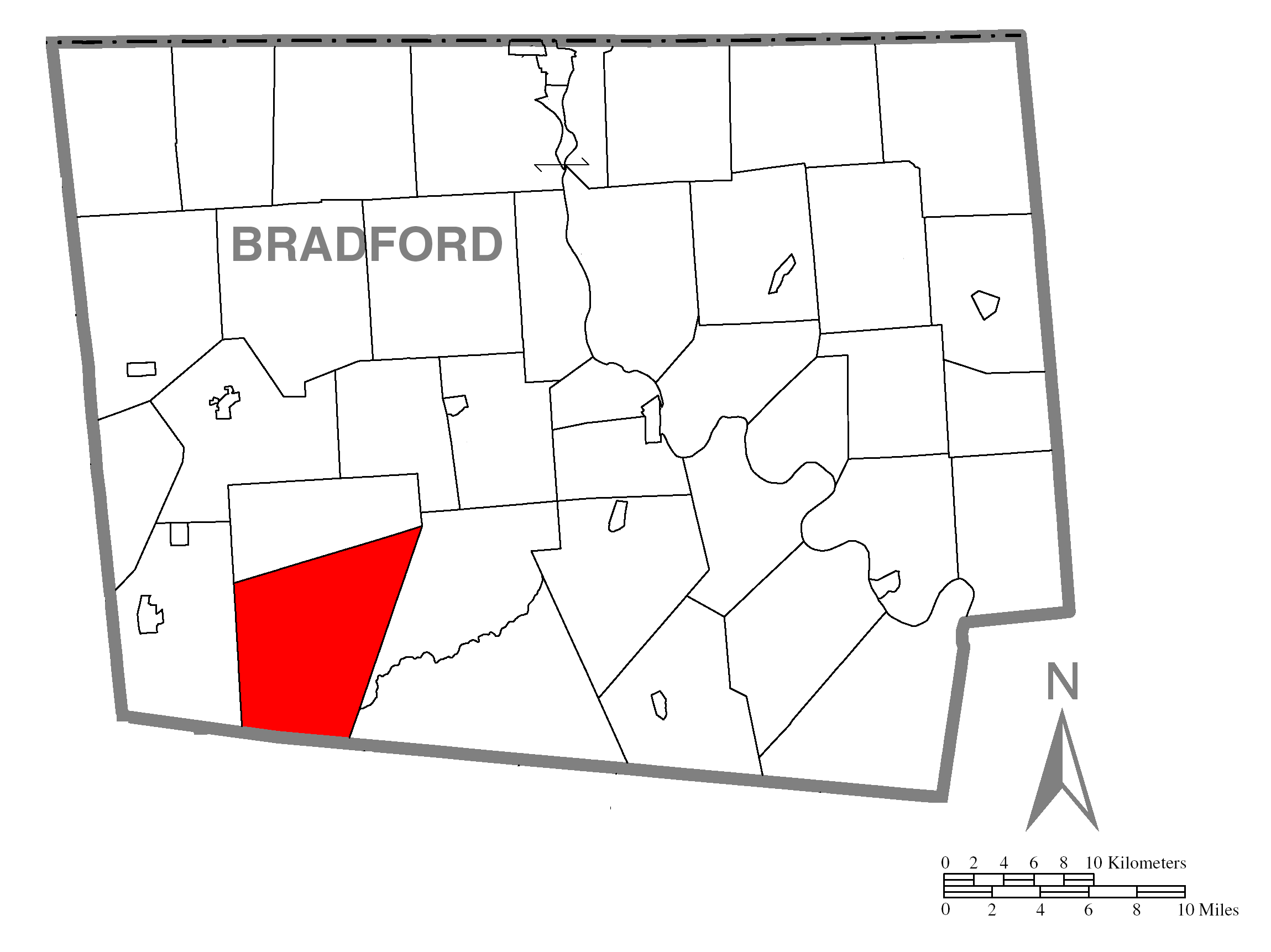 A map of Bradford County showing Leroy Township, Pennsylvania (alternate) highlighted on the map.